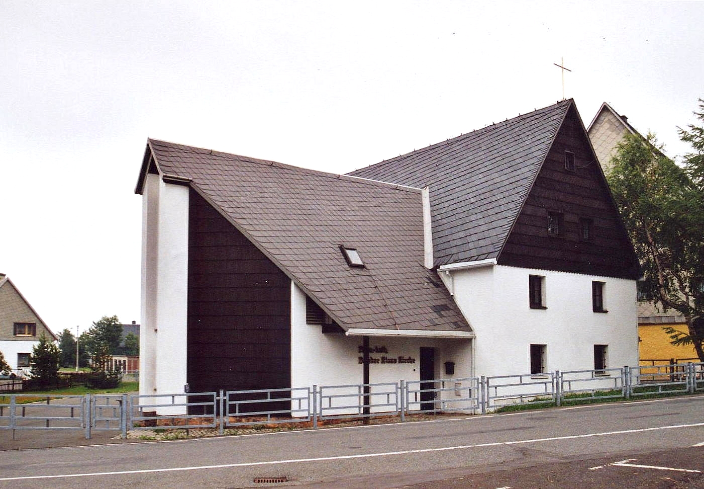 Zinnwald-Georgenfeld: The catholic church (built 1964).